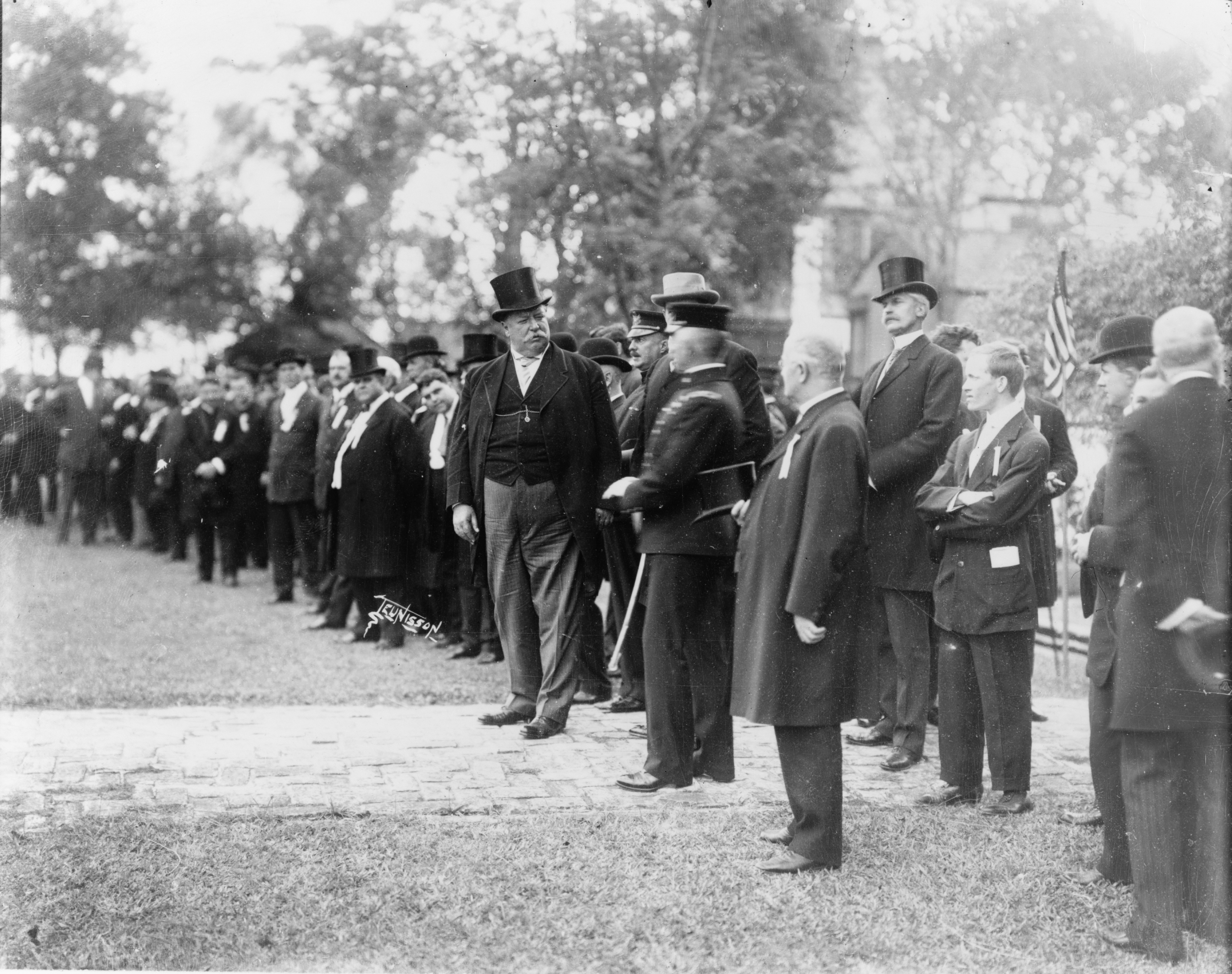 U.S. President William Howard Taft, in New Orleans, standing outdoors with group of men including the Archbishop.